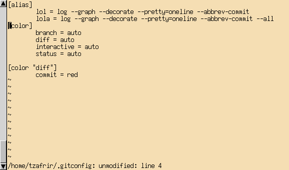 nvi (1.81.6-8.2) editing a small text file (.gitconfig) on a Debian Testing system